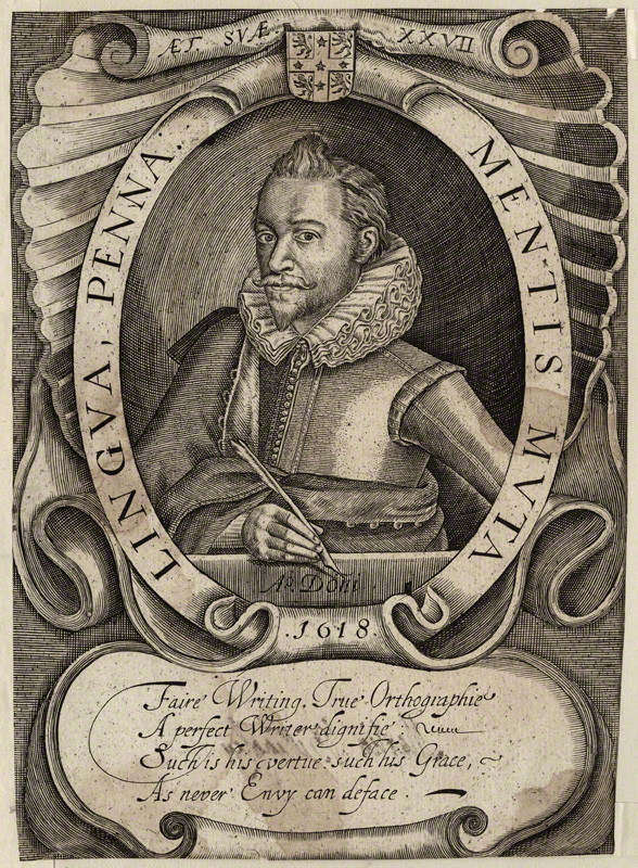 Portrait of Martin Billingsley (1591–1622), English writing-master.